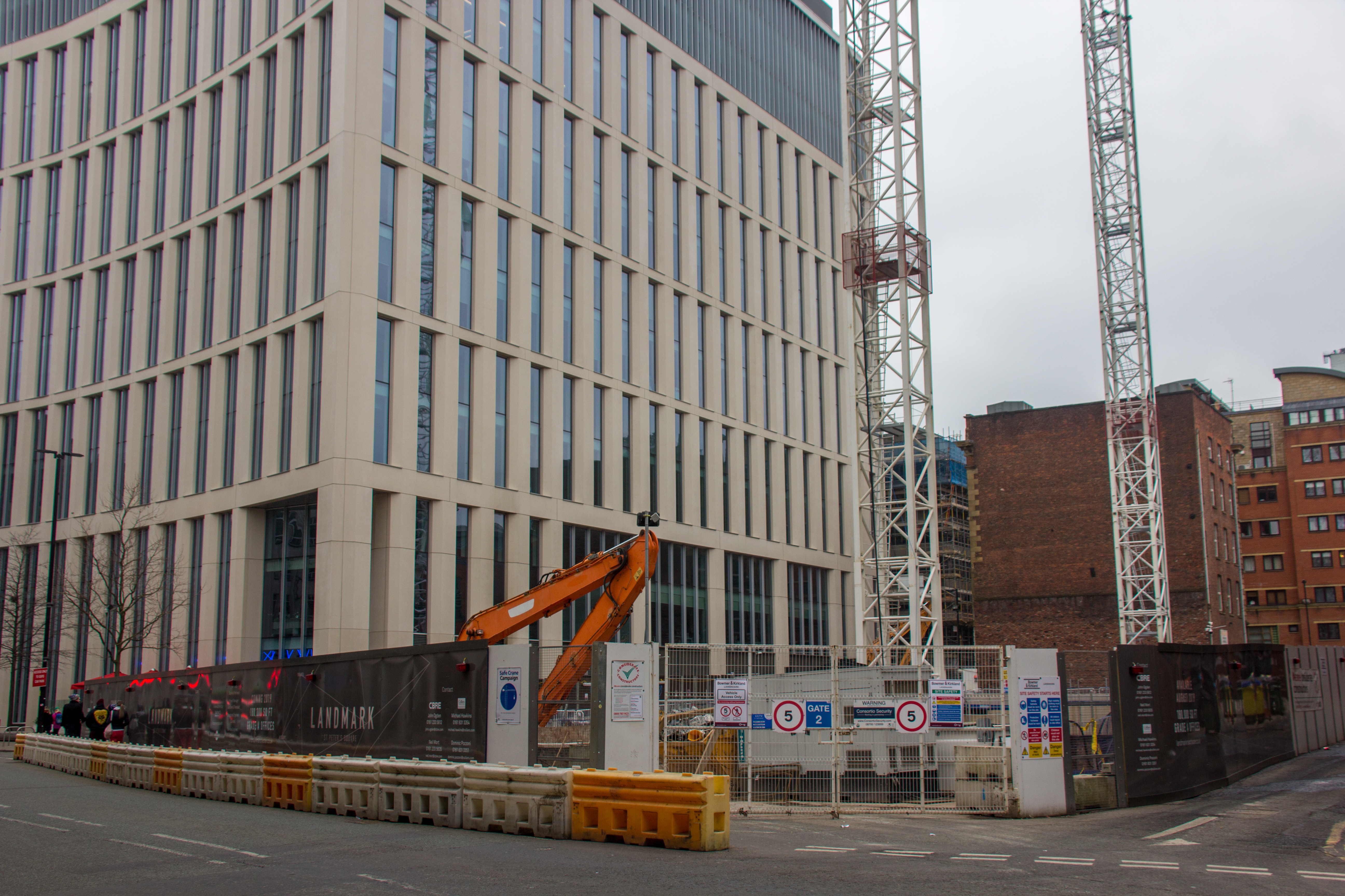 At Manchester, UK